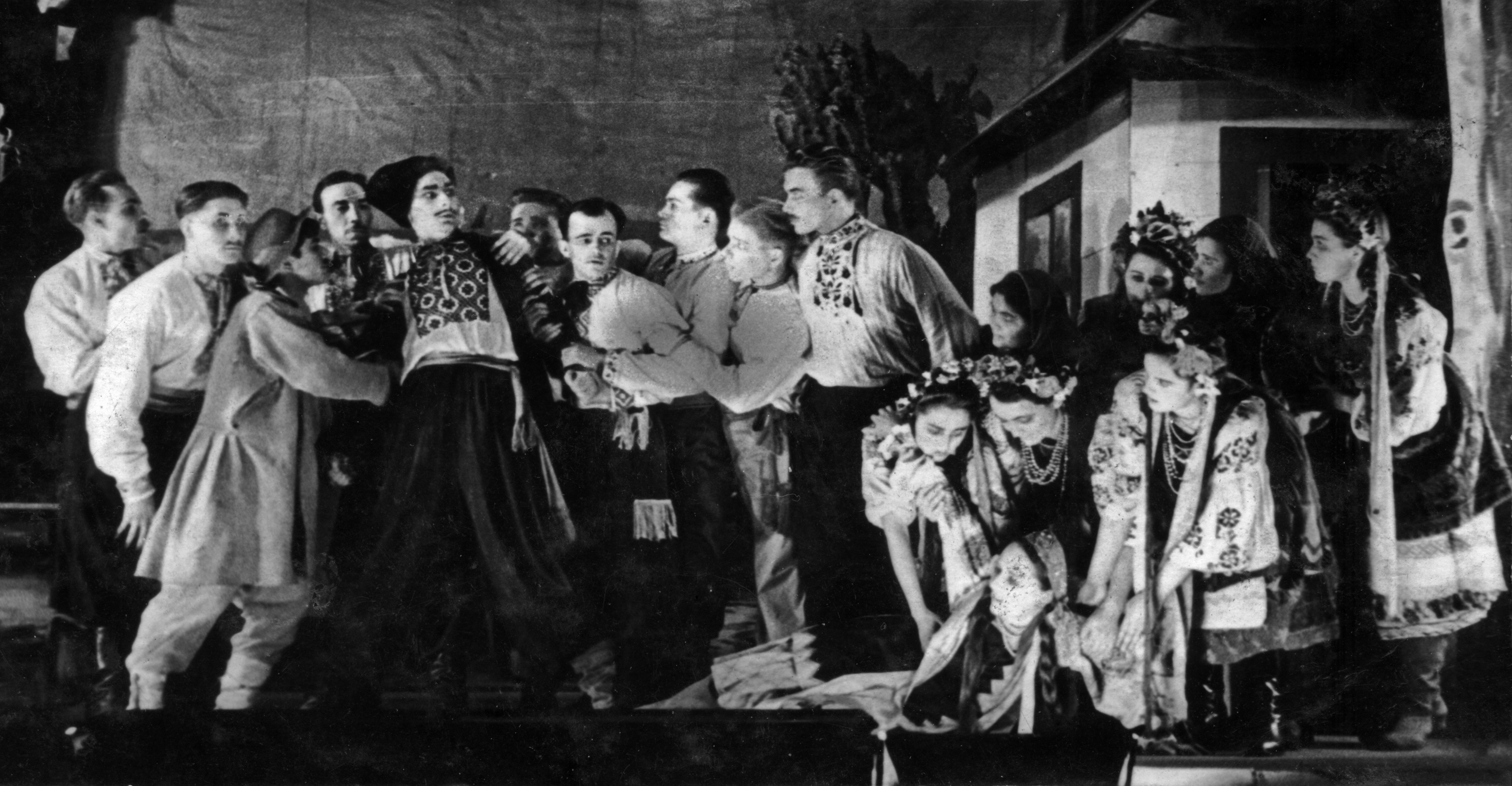 Rivne Theatre circa 1941-1942.